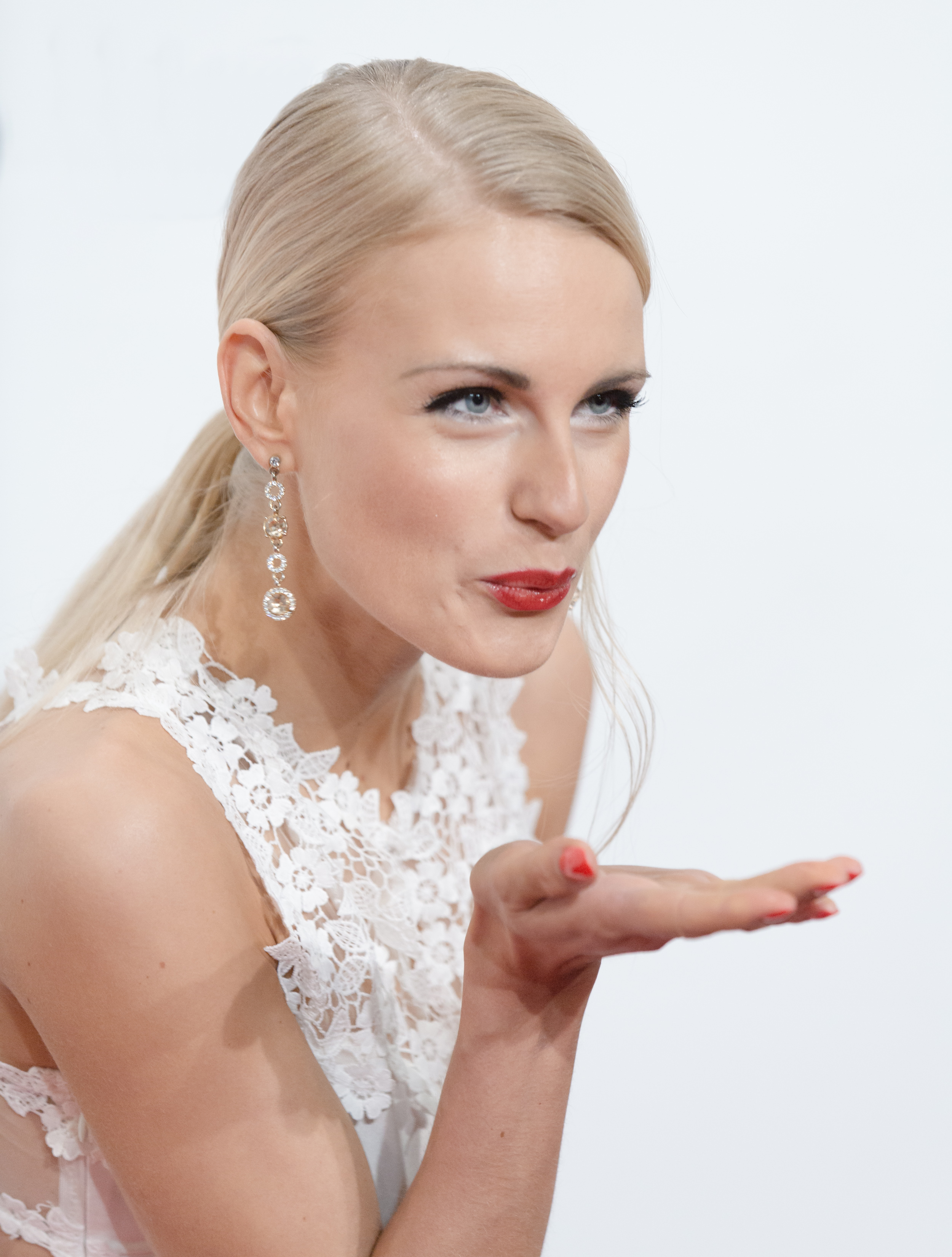 Anne-Kathrin Kosch on the red carpet of the Filmball Vienna 2016 at Rathaus, Vienna, Austria.